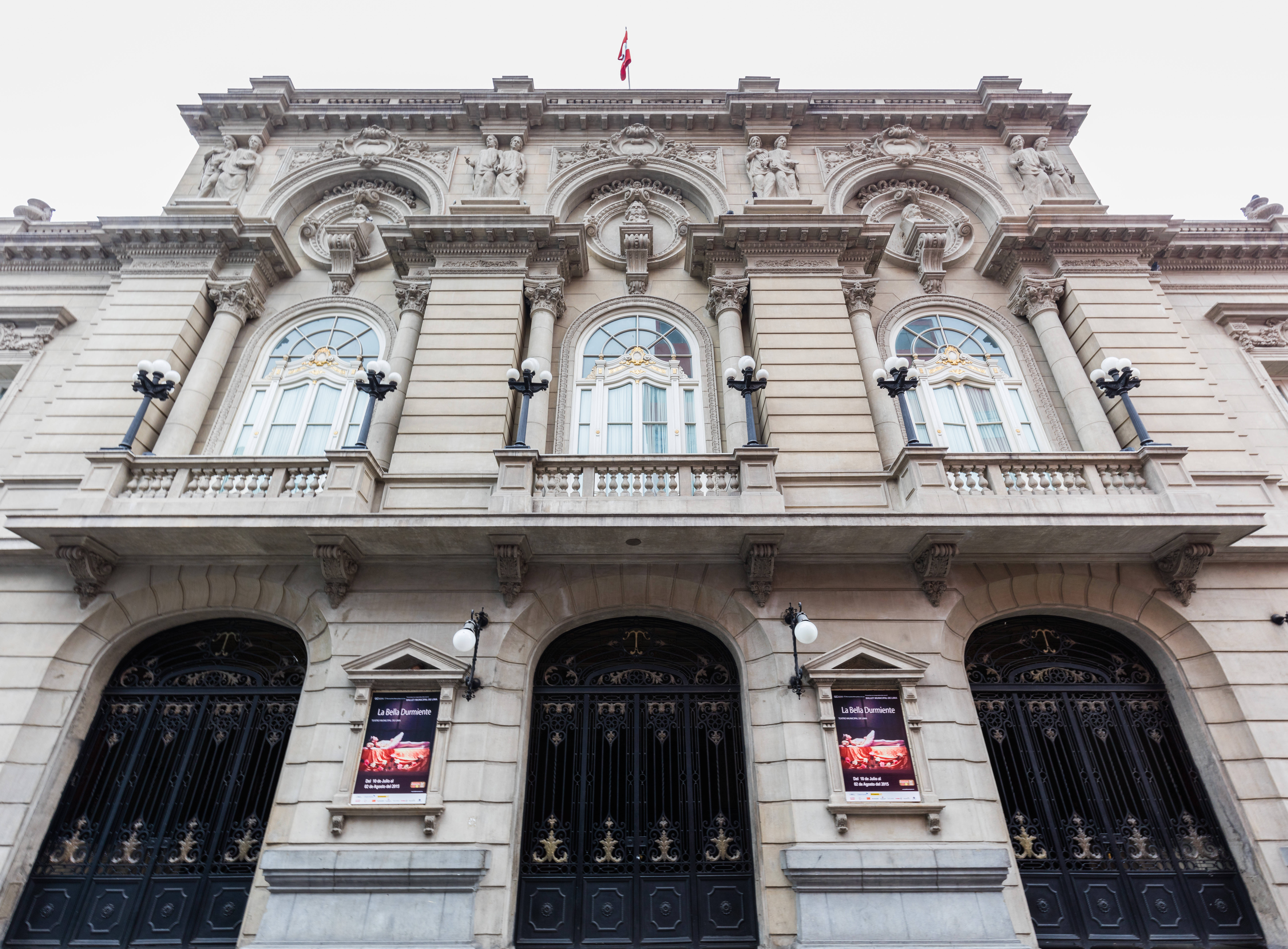 Municipal theater, Lima, Peru